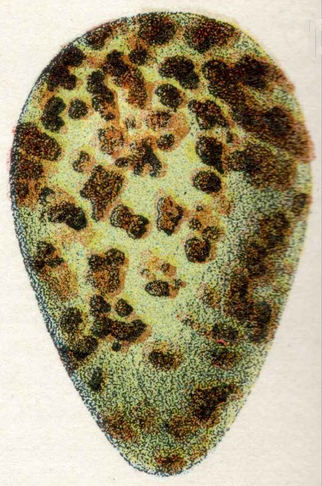 Egg of spotted redshank